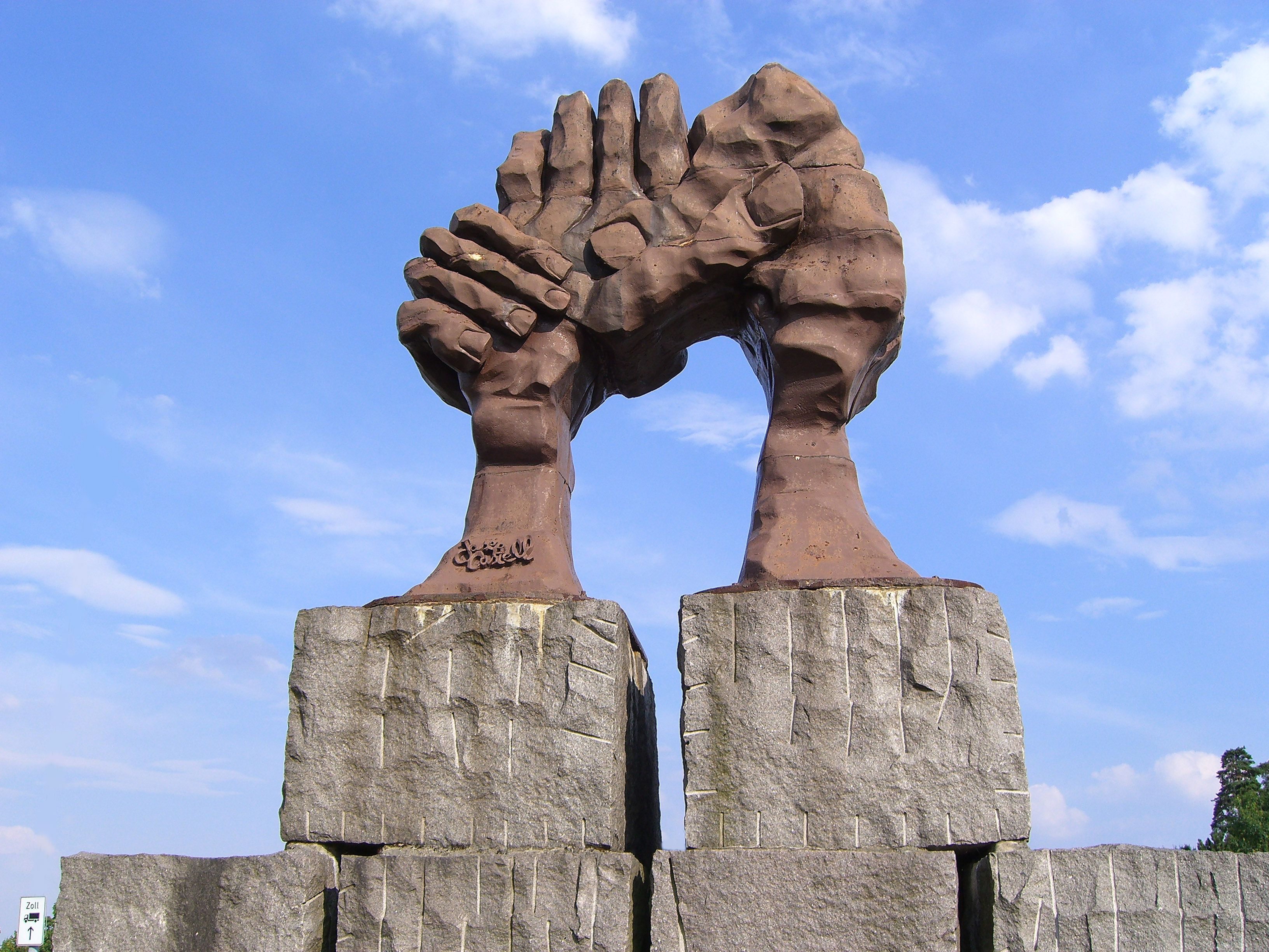 sculpture "La voûte des mains" ("vaulted hands"; artist: José Castell) at the former border at the motorway "Autobahn A2" close to Helmstedt